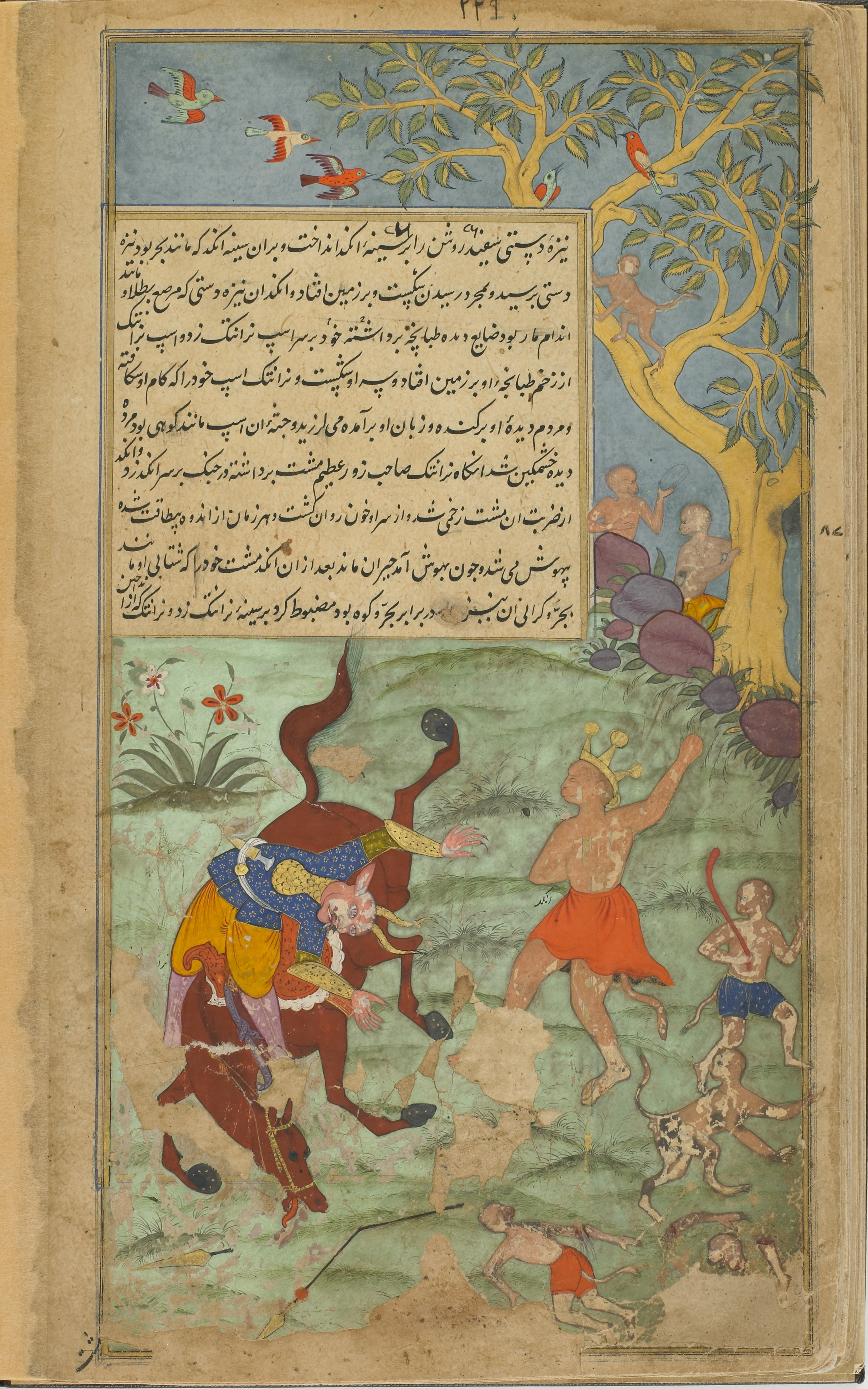 Folio from the Ramayana of Valmiki (The Freer Ramayana), Vol. 2, folio 226; recto: text; verso: Angada smites the demon Narantaka 1597-1605 Fazl , (Indian, Indian) Mughal dynasty Opaque watercolor, ink, and gold on paper H: 27.5 W: 15.2 cm Northern India Gift of Charles Lang Freer F1907.271.226